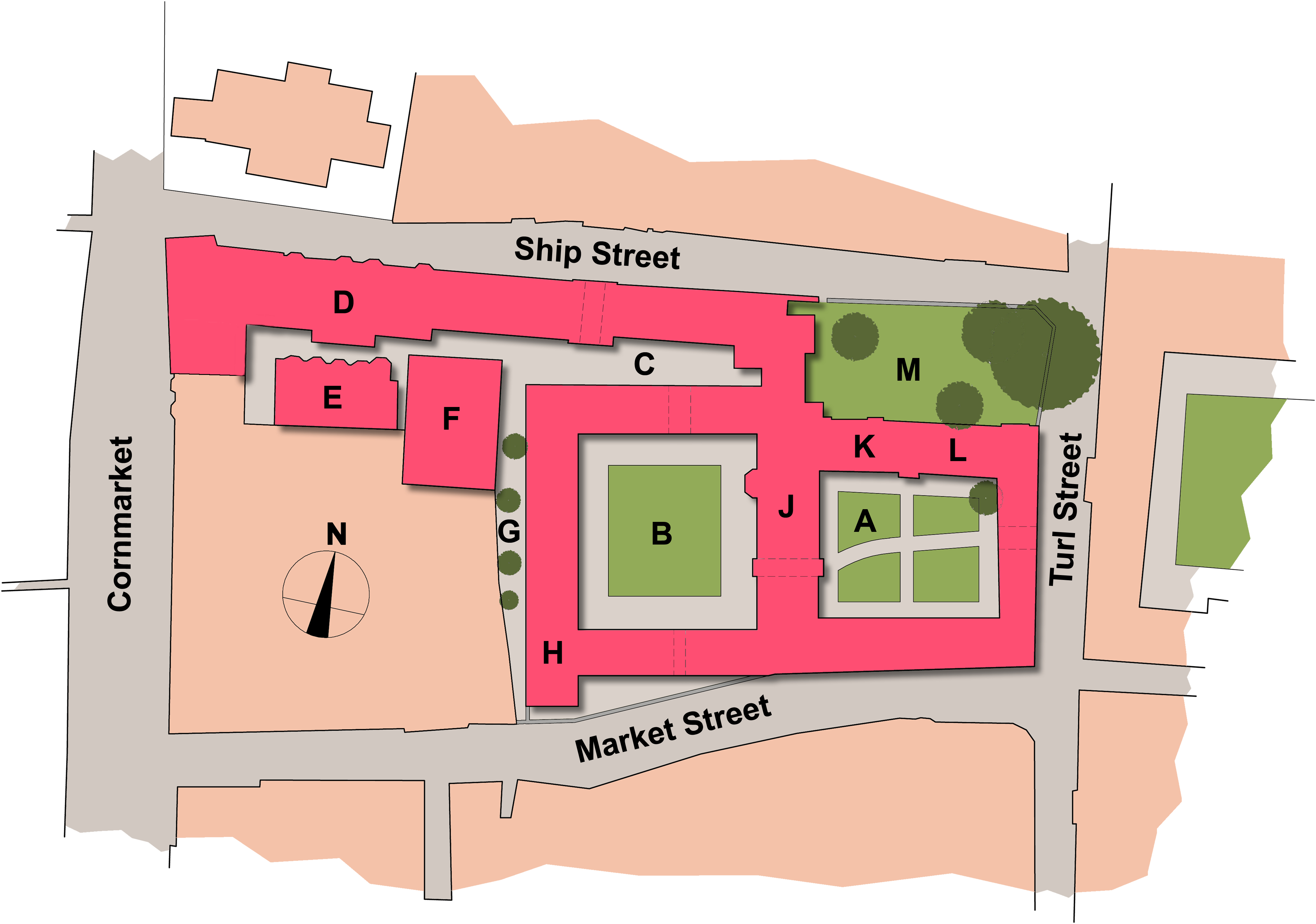 Jesus College, Oxford. A - First Quad, B - Second Quad, C - Third Quad, D - Junior Common Room, E - Habakkuk Room, F - Old Members' Building, G - Fellows' Garden, H - Fellows' Library, J - Dining Room, K - Principal's Lodgings, L - Chapel, M - Principal's Garden